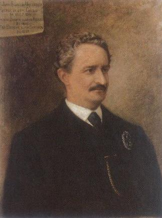 uan Agustín de Uricoechea Zarnoza y Rocha, Inspector General and Interim President of Colombia in 1864. uan Agustín de Uricoechea Zarnoza y Rocha, Procurador General y Presidente Interino de Colombia en 1864.